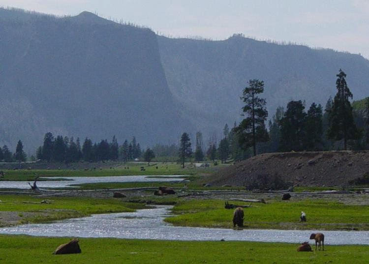 Photo taken by Daniel Mayer and released under terms of the GNU FDL.